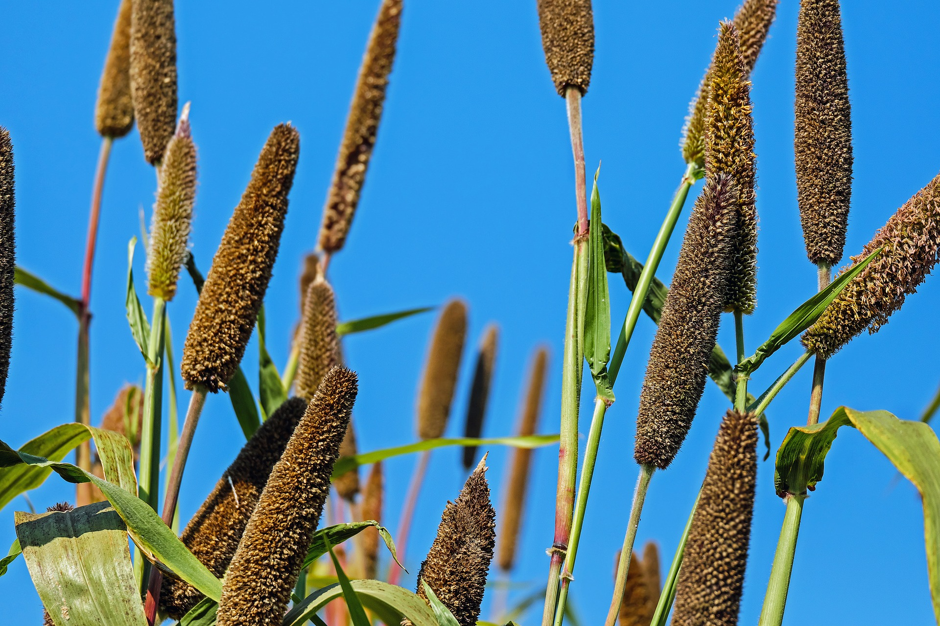 Millet